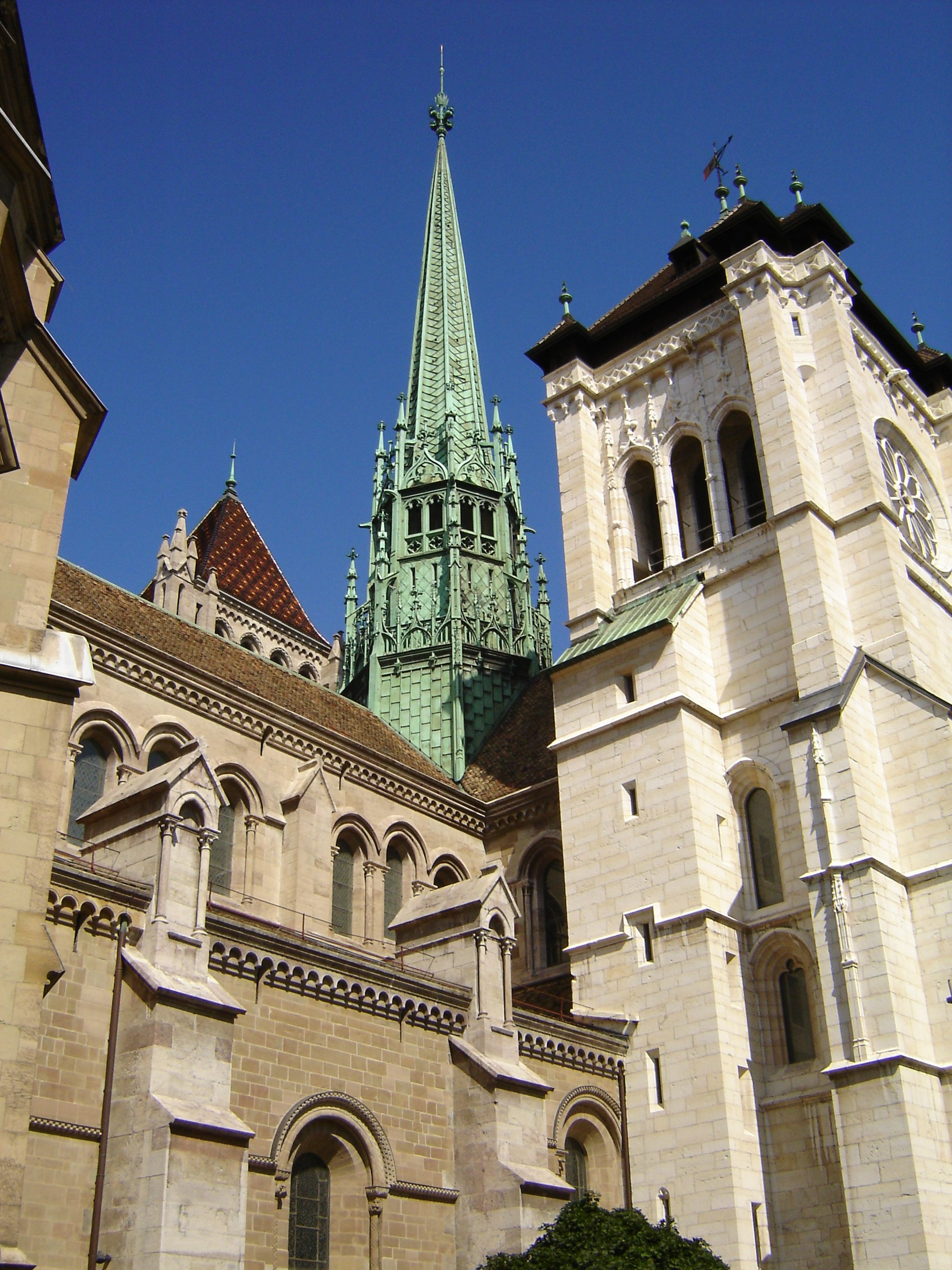 Saint Pierre Cathedrale, Geneva, Switzerland